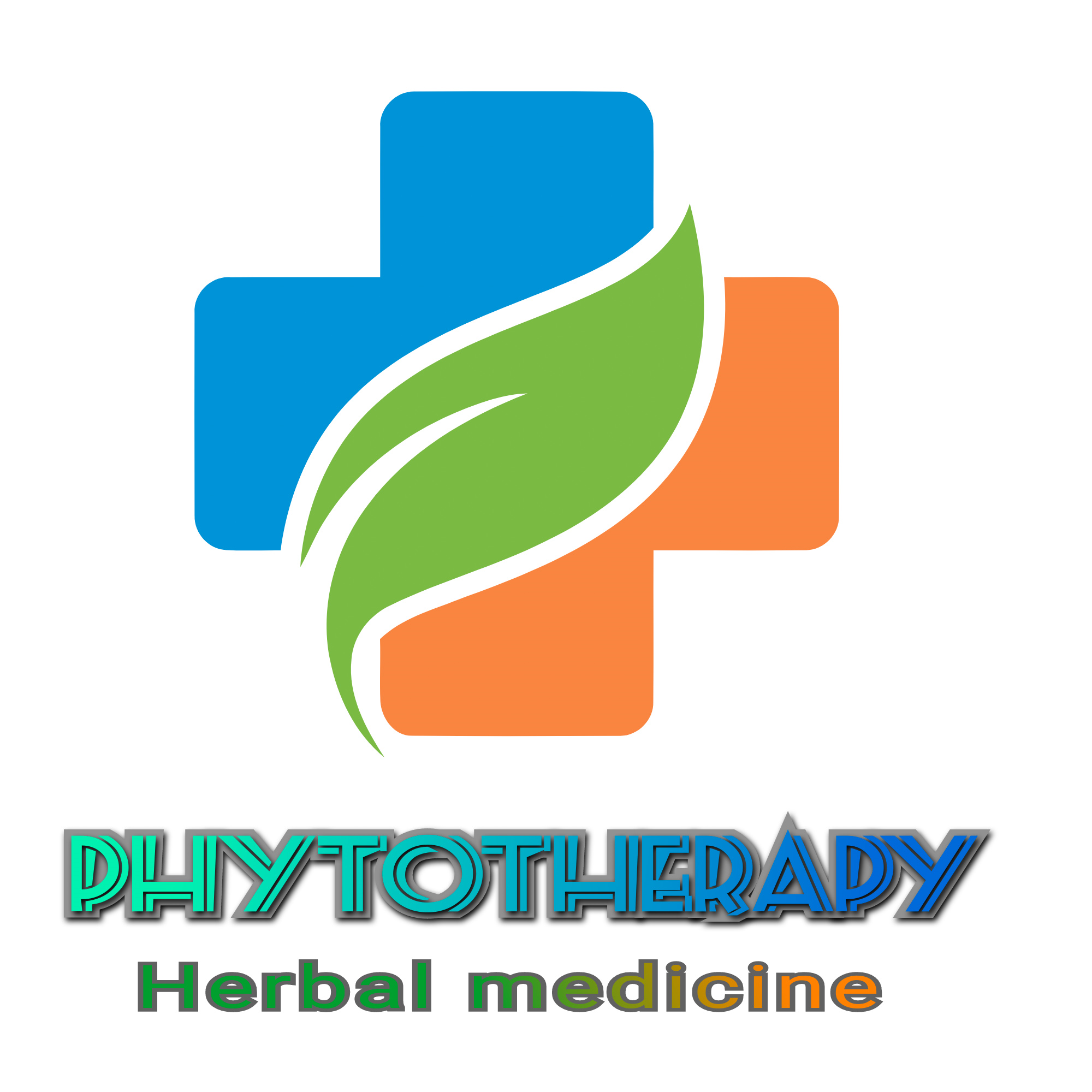 Logo Phytotherapy